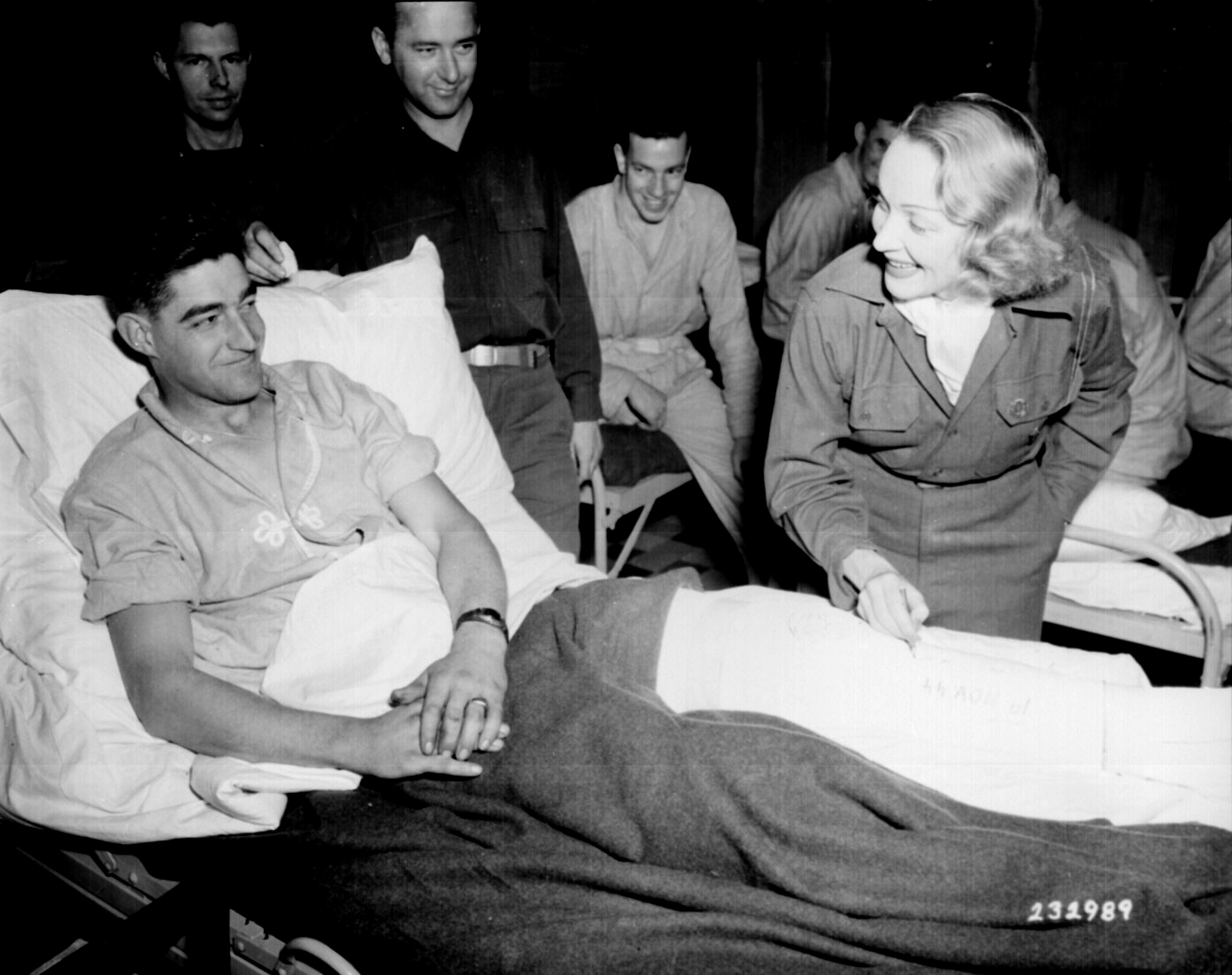 "Marlene Dietrich, motion picture actress, autographs the cast on the leg of Tec 4 Earl E. McFarland of Cavider, Texas, at a United States hospital in Belgium, where she has been entertaining the GIs." Tuttle, November 24, 1944. 111-SC-232989. [1]